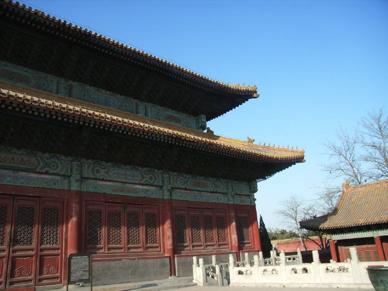 The Taimiao of Beijing